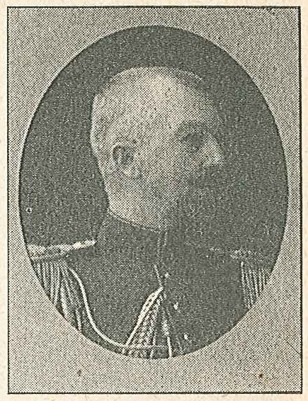 Thorsten Rudenschiöld (1863-1926), Swedish baron and officer.